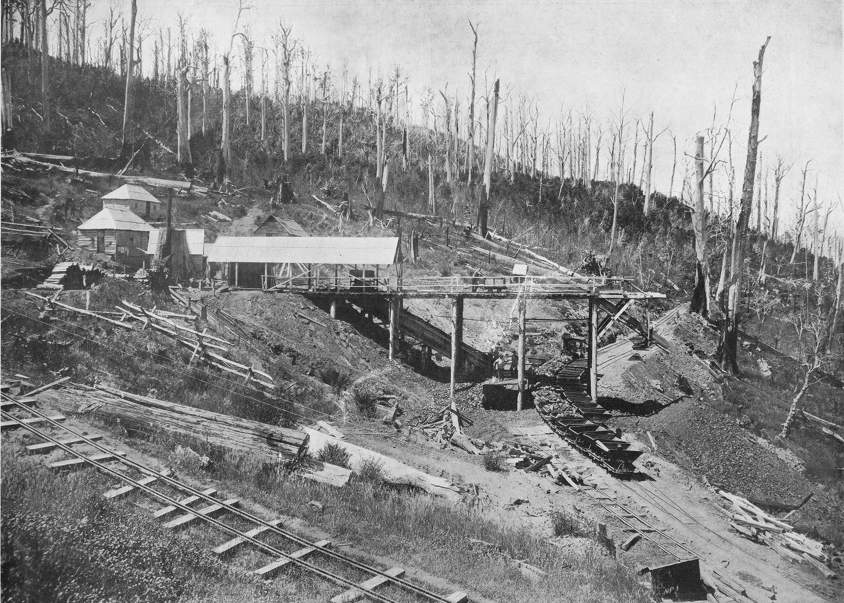 The Sandfly Colliery and Tramway. Coal screens at Kaoota. Beattie photo